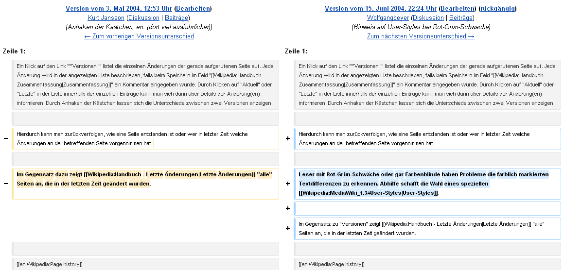 diff view, MediaWiki